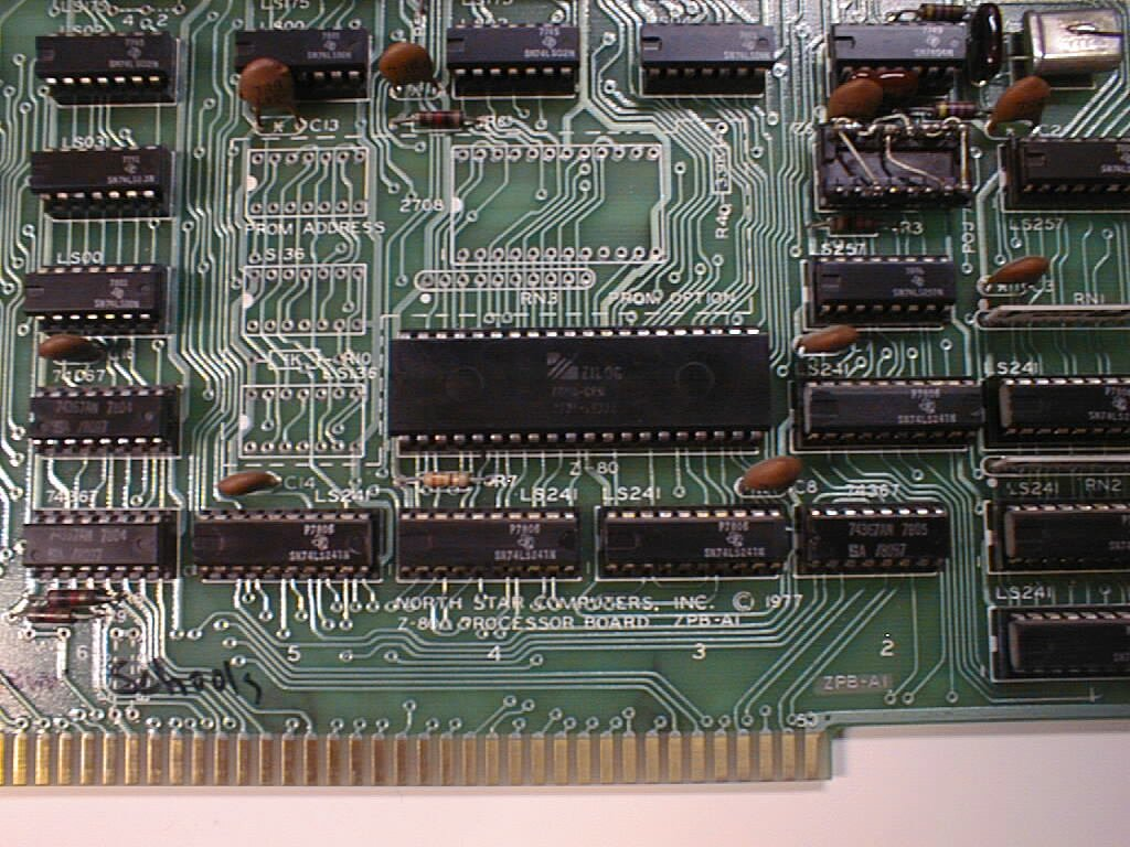 This is a processor board for the NorthStar Horizon vintage computer. Although this board was designed circa 1977, the computer for which it was intended was not released until 1979. The primary Zilog Z80 processor is the largest chip in the center. It is surrounded by many other discrete logic chips. Notice that none of the chips are soldered, but are instead in sockets.